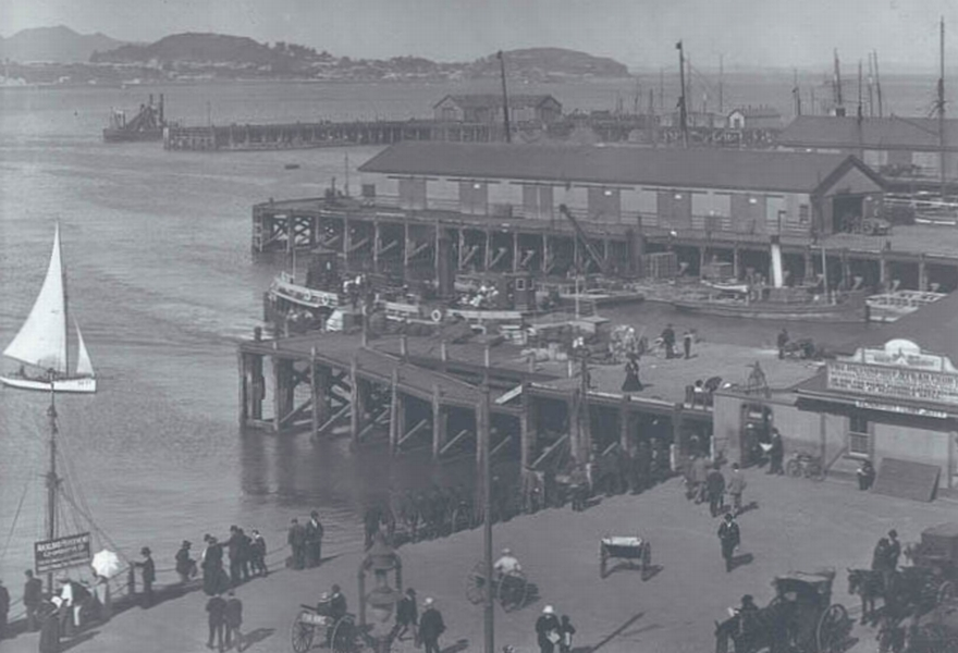 Looking over the Auckland waterfront in Auckland City, New Zealand. In the distance, Devonport is visible with Rangitoto behind to the left, annd the closer hills of Mount Victoria and North Head. Extended information on origin webpage reads: Photographer: Winkelmann, Henry / Date: 1905 / Date Period: 1900-1909 / Description: Looking north over the harbour to Devonport, showing the Devonport Steam Ferry Company's jetty and Quay Street Jetties taken from the Gladstone Coffee Palace, corner of Queen Street and Quay Street West / Subjects: Waterfront, Auckland Central; Devonport Steam Ferry Company; Carriages and coaches; Quay Street jetties; Auckland Fishermans Co-operative Company; Ferries; Dredges / Caption: [Looking north over the harbour to Devonport, showing the....] / Related ID's: Class No: 995.1101 W33 (1900-09) [33]